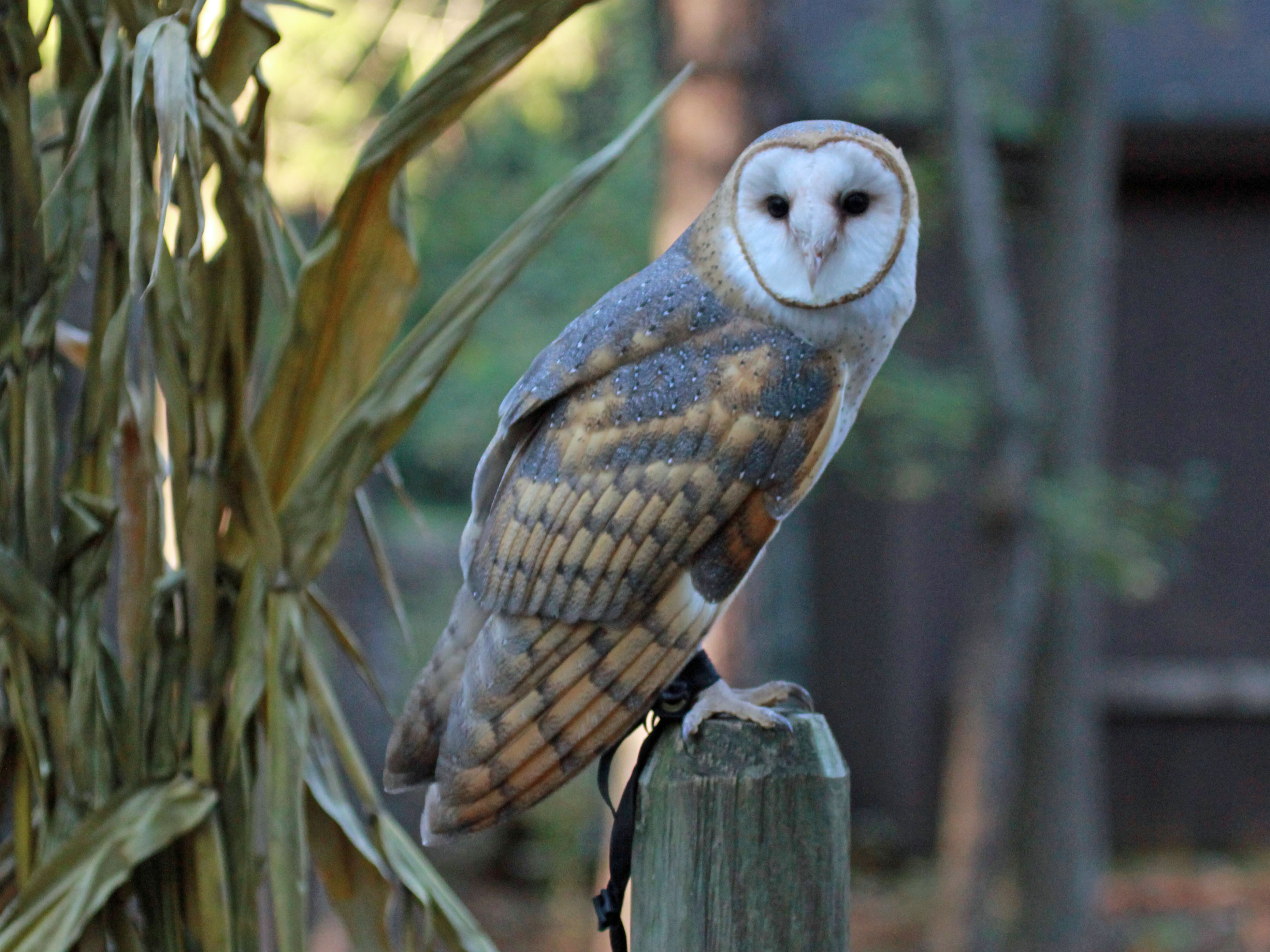 Barn Owl (Tyto alba) - Carolina Raptor Center at Huntersville, North Carolina